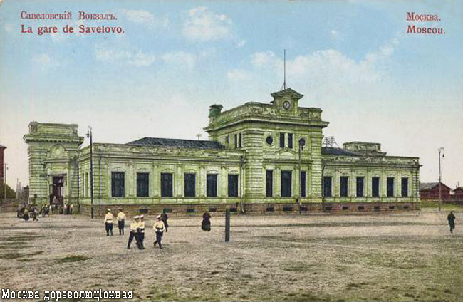 pre-revolutionaty russian postcard of Savyolovsky Rail Terminal